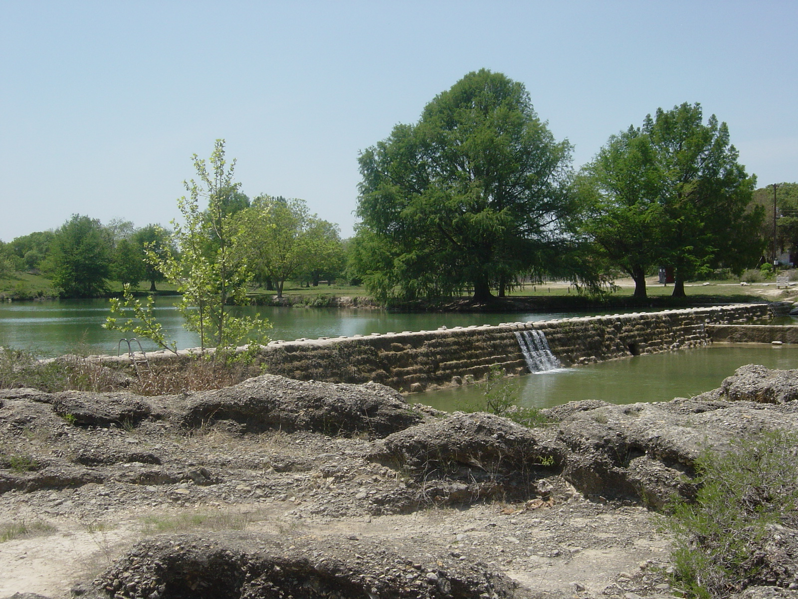 Blanco River at Blanco, Texas.I, Kuru, created this work.